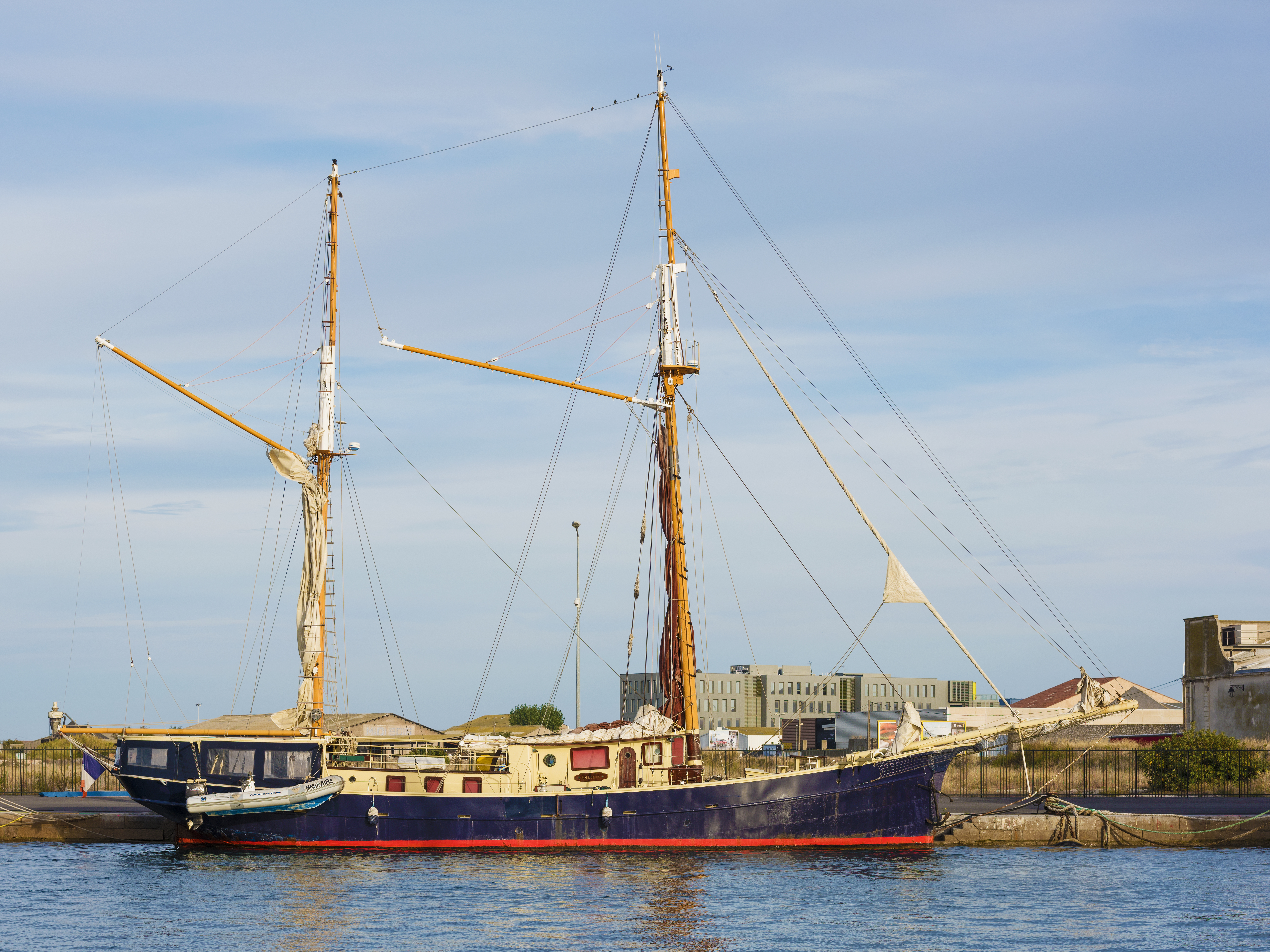 Amadeus (ship, 1910) moored at the Paul Riquet Embankment. This boat is a former Dutch cod fishing boat and now have the french label Bateau d'intérêt patrimonial (BIP). Sète, Hérault, France.